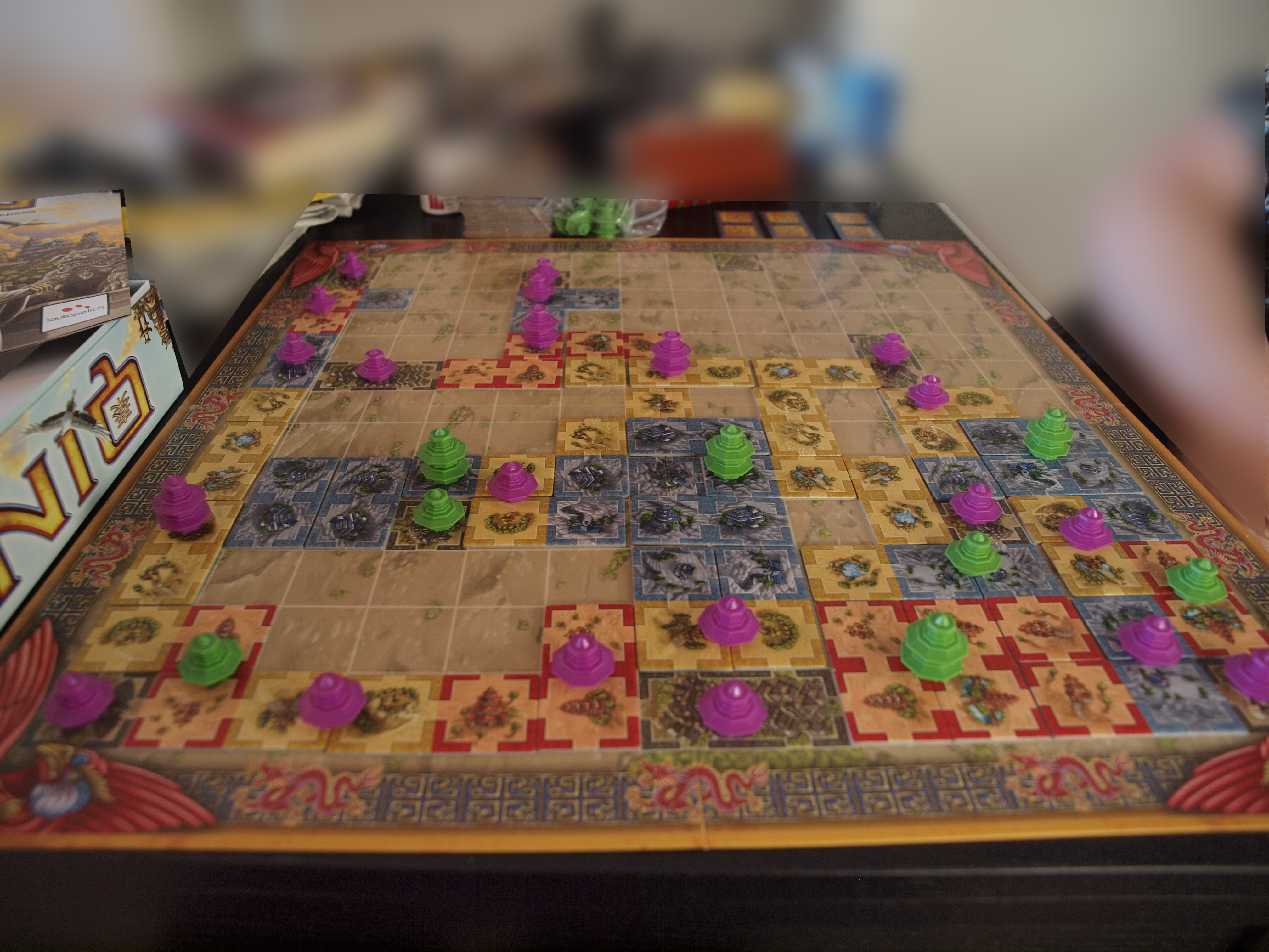 Qin at the end of a two-player game in a private apartment. The image has been edited to blur out everything in the apartment except the actual board game, to preserve privacy.